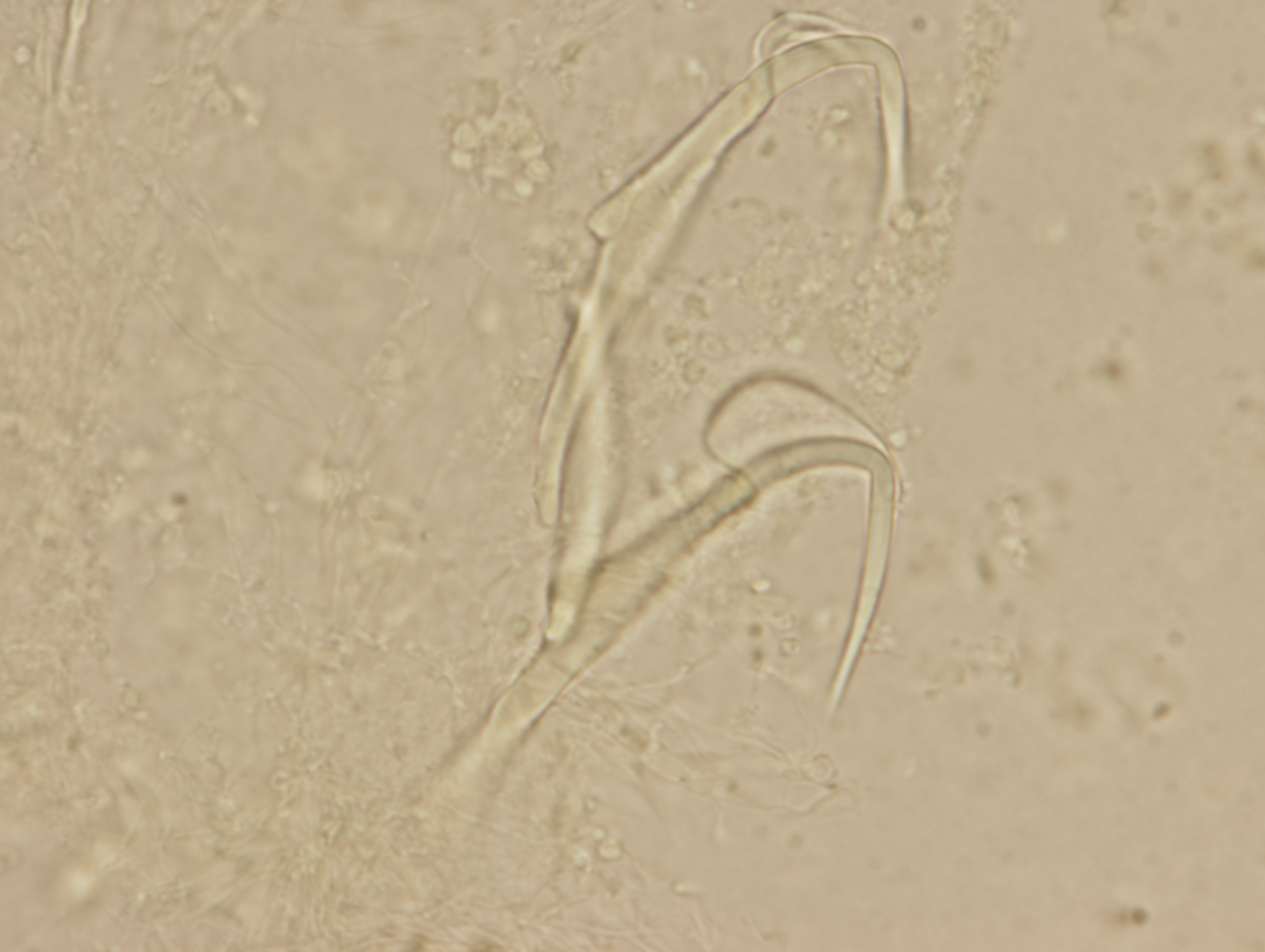 Dactylogyrus baueri from the Prussian carp (Carassius gibelio), Czech Republic